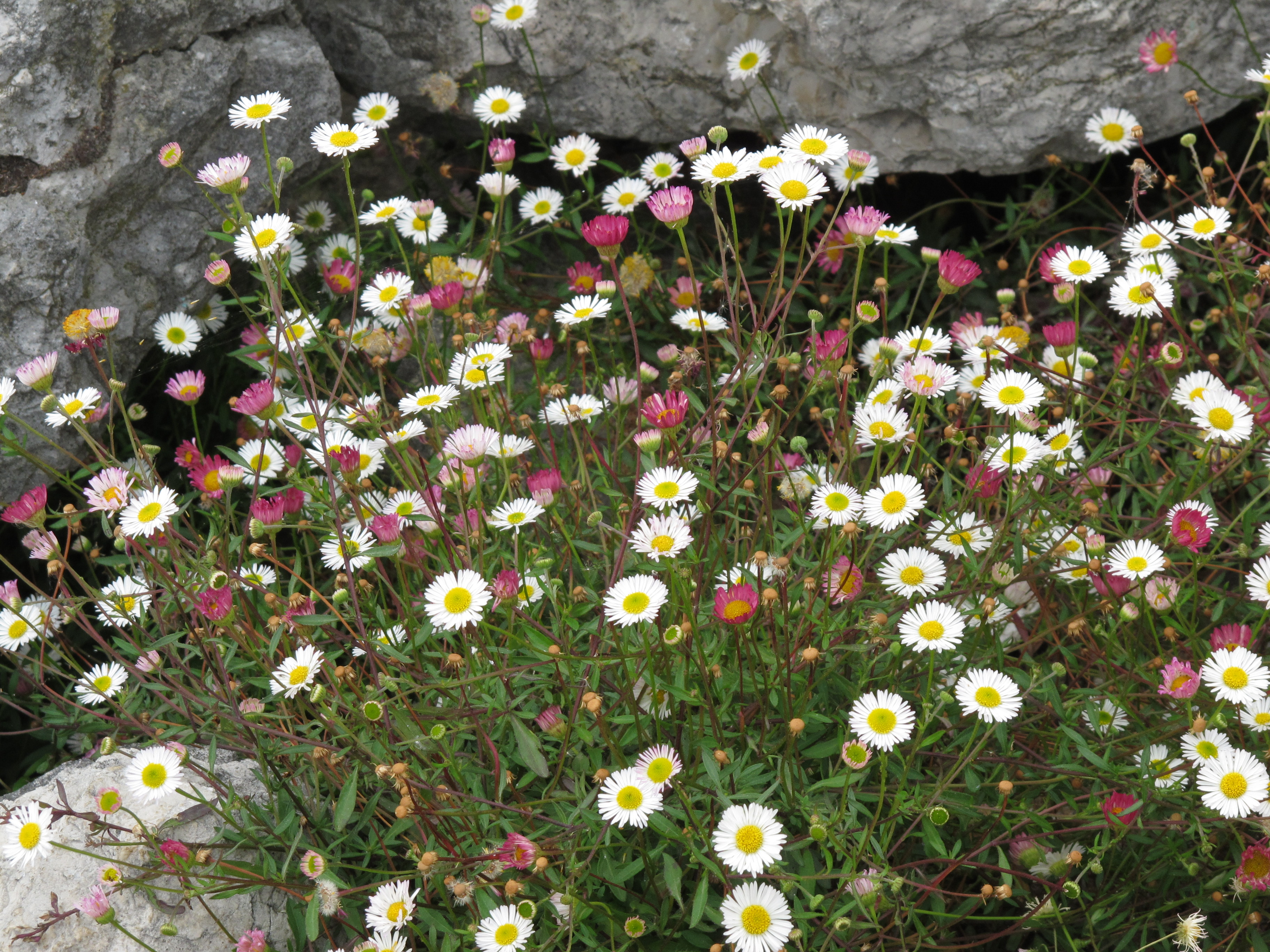 Mexican fleabane (Erigeron karvinskianus), Torbole, at lake Garda, Italy